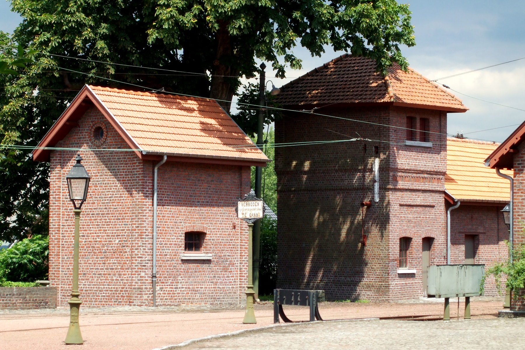 Keywords: SNCV, vicinal railways, rail, meter gauge, tram, train, station, shed, museum, water tower, weighing machine, Schepdaal, Belgium